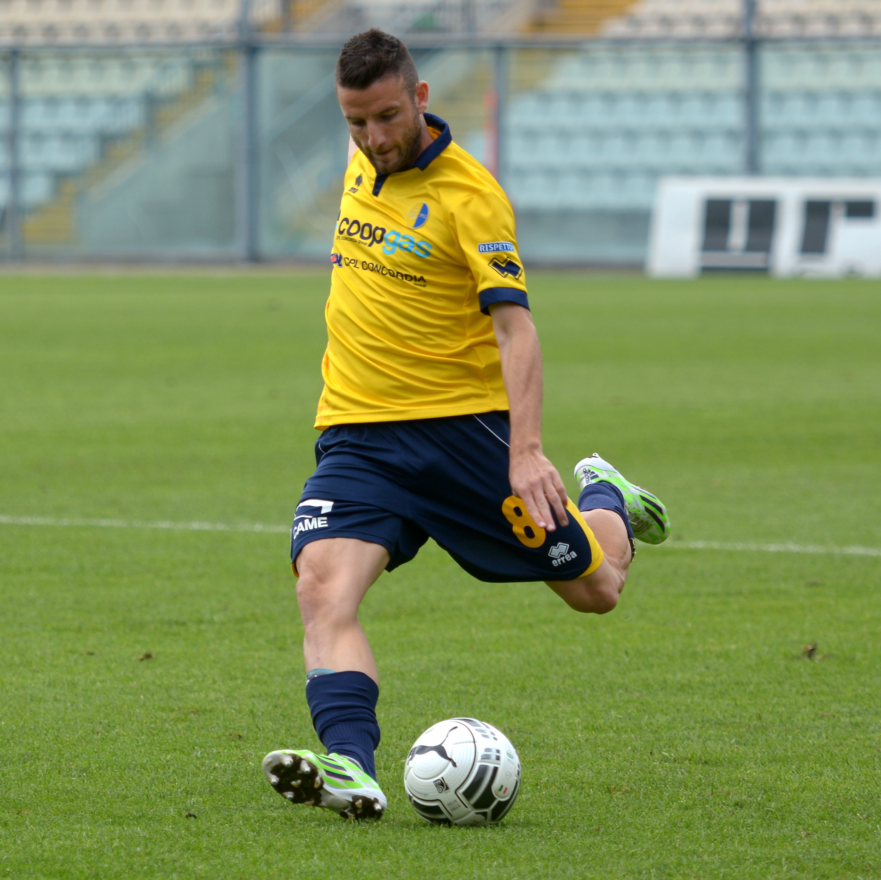 Luca Nizzetto in action during the match Modena versus Ternana